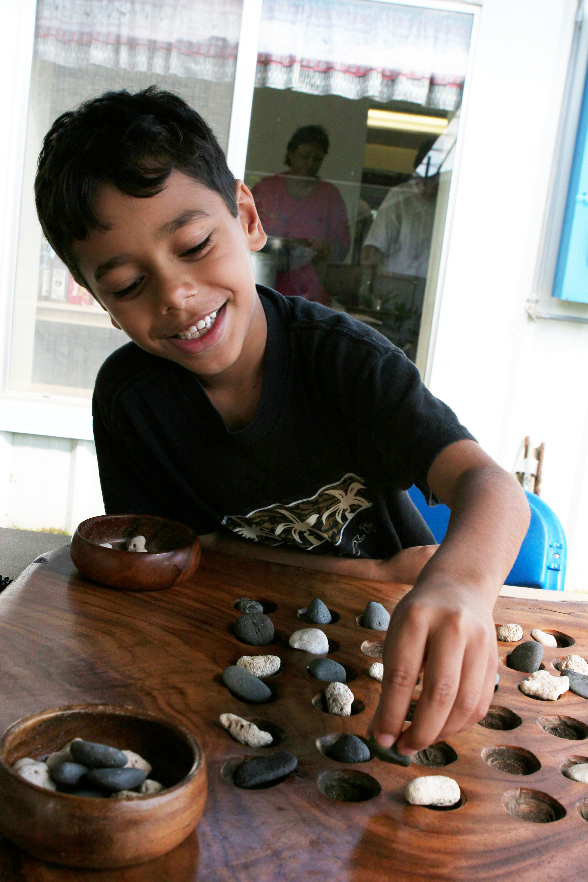 Jordan Suapaia, 6, plays a game he describes as Hawaiian checkers, or Konane. It is a game of strategy similar to checkers and widely believed by historians to be a game that was used as a tool to instruct warriors. The object of the game is not so much to take your opponents papumu, or gamestones, than it is to isolate your opponents papumu and prevent your opponent from being able to make a move.